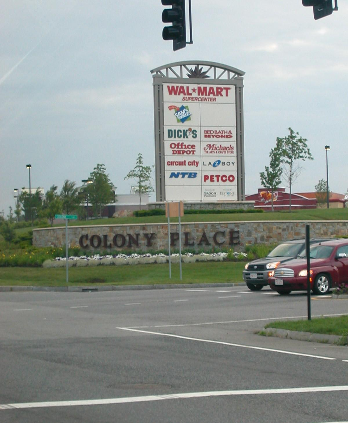 Sign of Colony Place